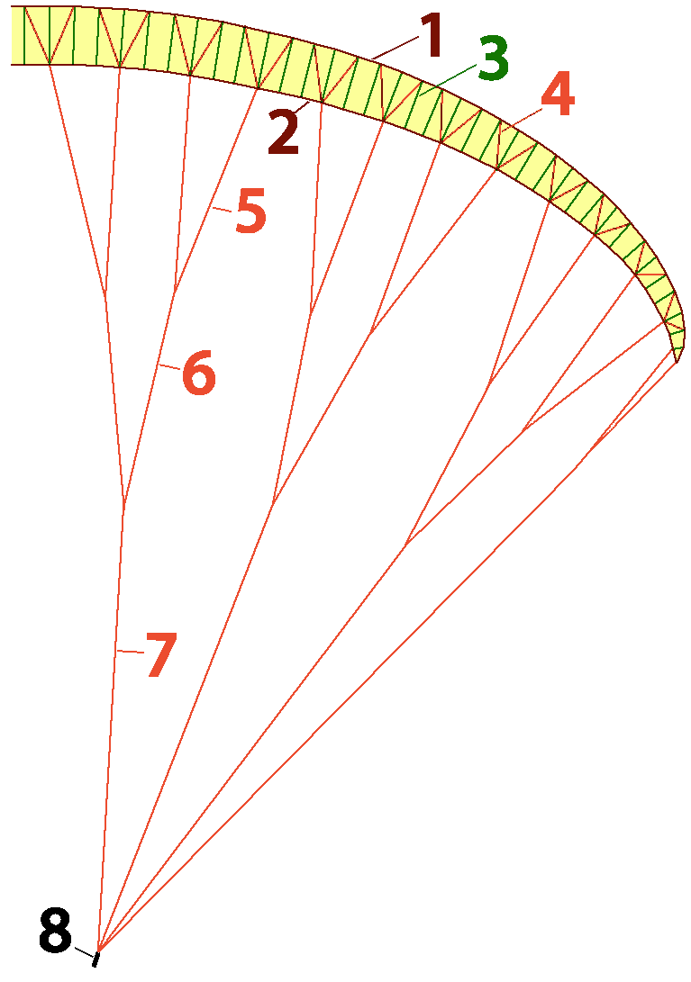 Parts of a Paraglider 1. Upper sail 2. Lower sail 3.profile rip